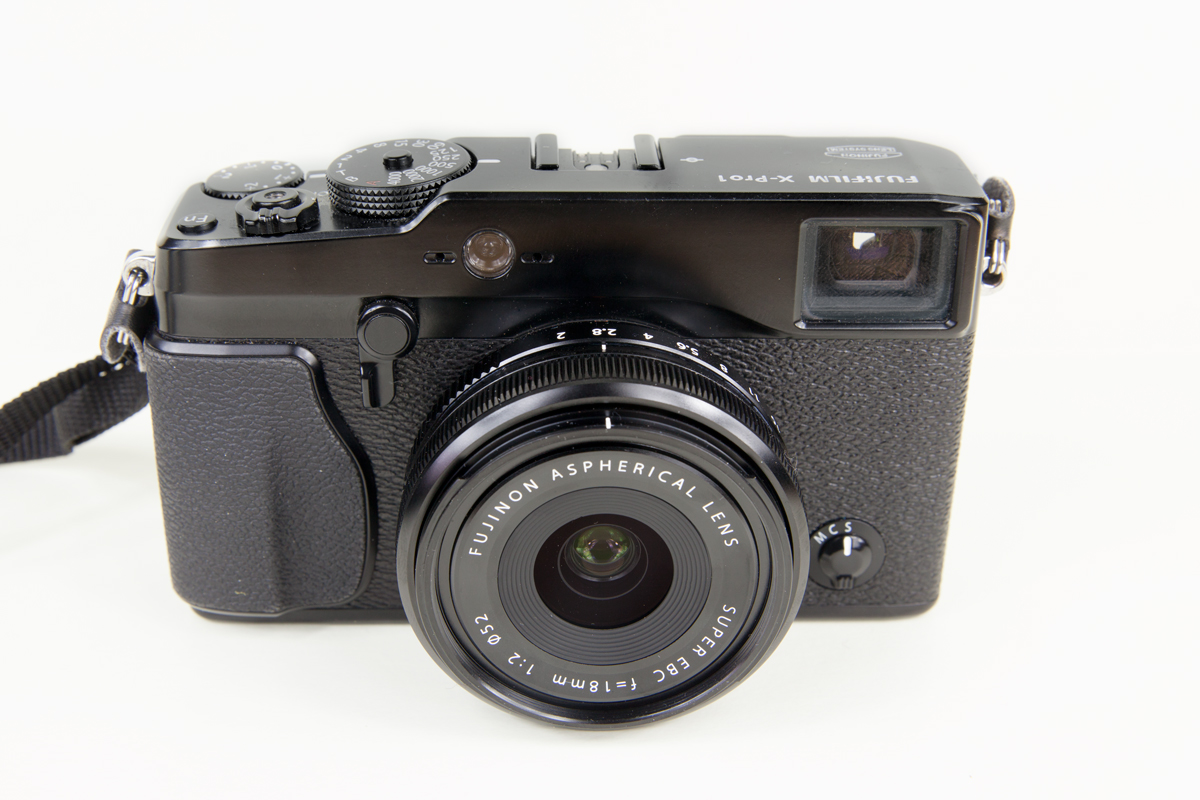 Fujifilm X-Pro1